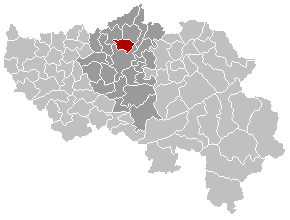 Map, municipality belgium Herstal